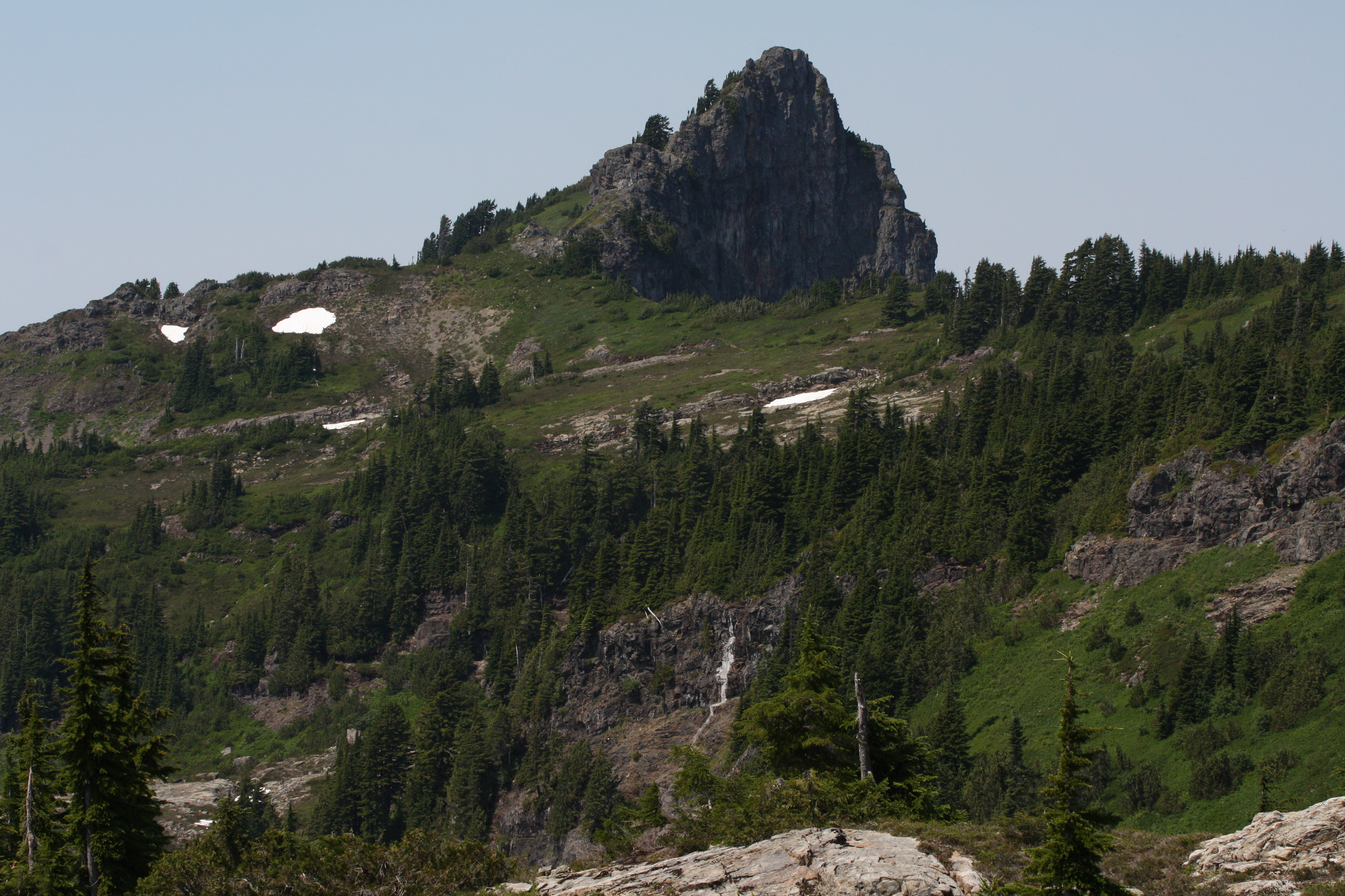 Stillaguamish Peak (5720+ feet, 1743+ m); Tsuga mertensiana (Mountain Hemlock); Abies lasiocarpa; subalpine transition zone